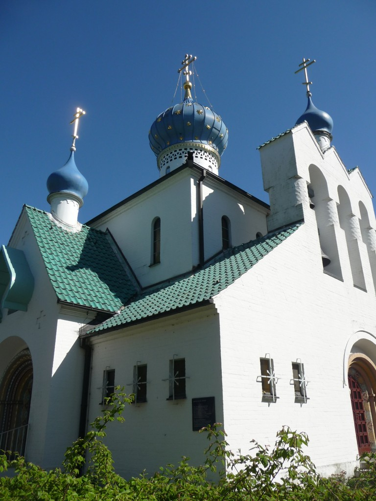 russian-orth. Church in Hamburg-Stellingen